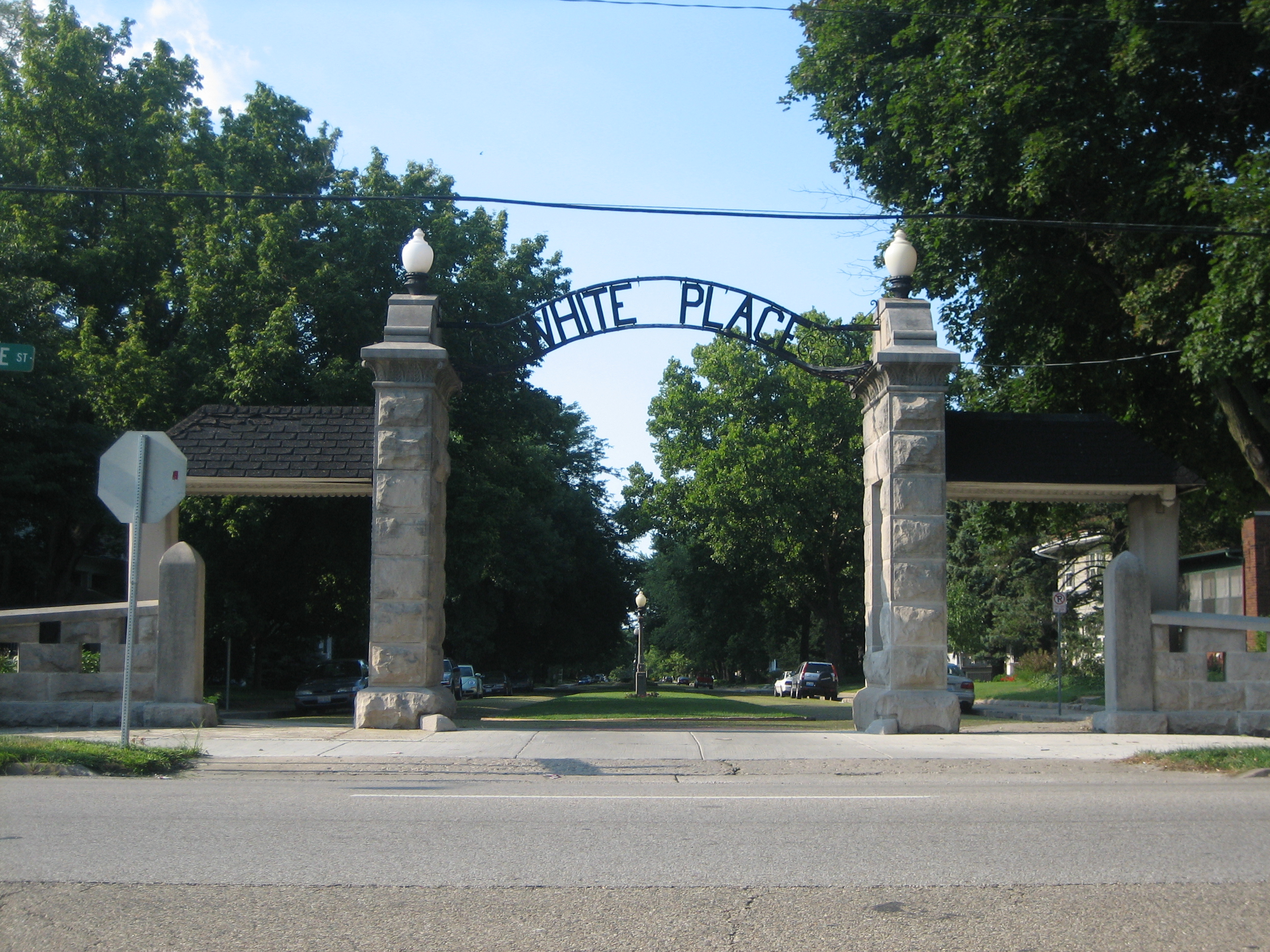 Gate at South end of White Place from E. Empire St. (US 150/IL 9 westbound)